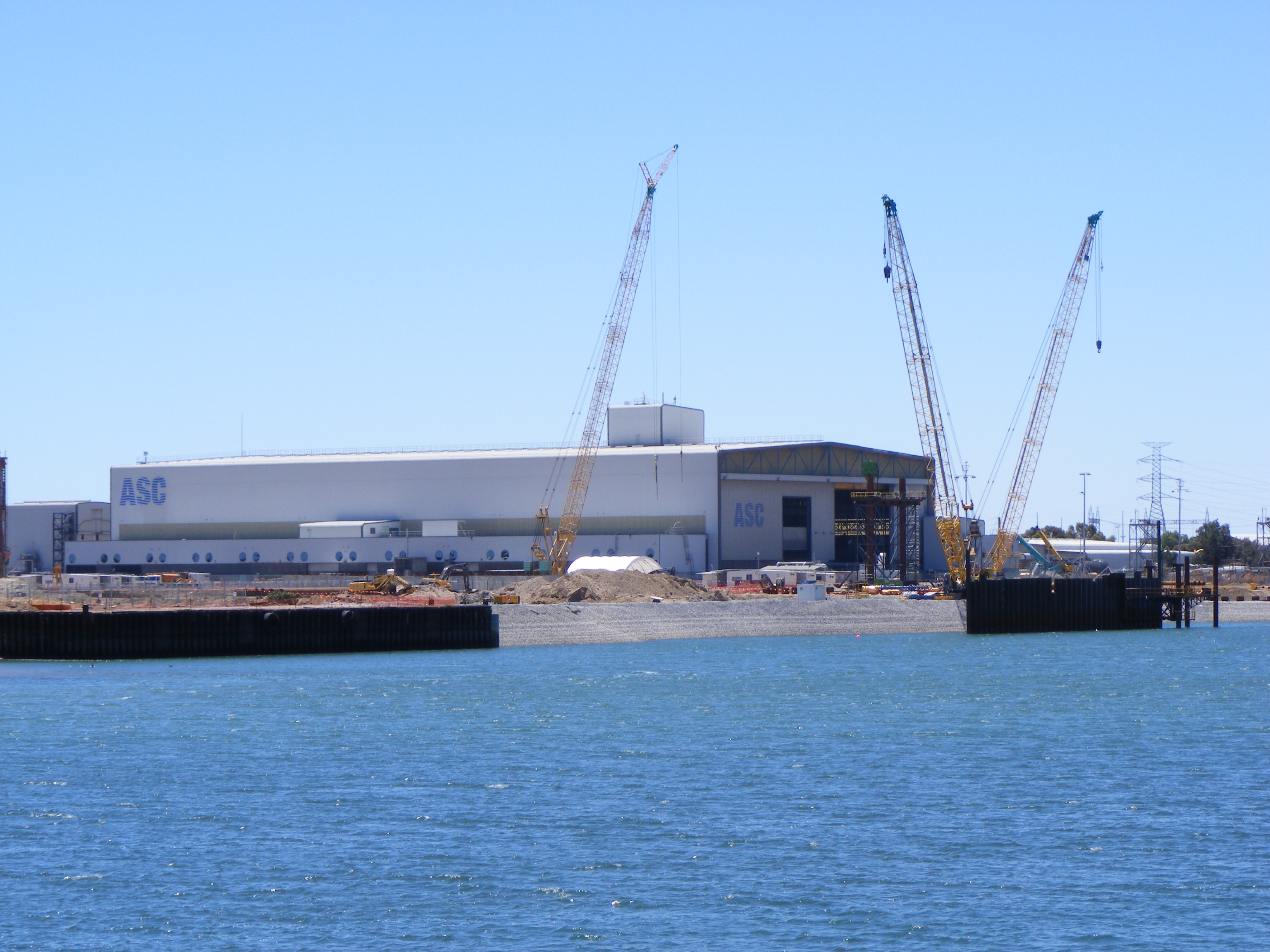 Australian Submarine Corporation, Adelaide, South Australia from the Port River